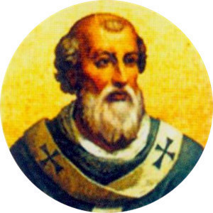 Portait of Pope Stephen V in the Basilica of Saint Paul Outside the Walls, Rome